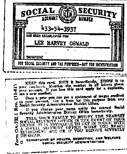 Lee Harvey Oswald's Social Security card.